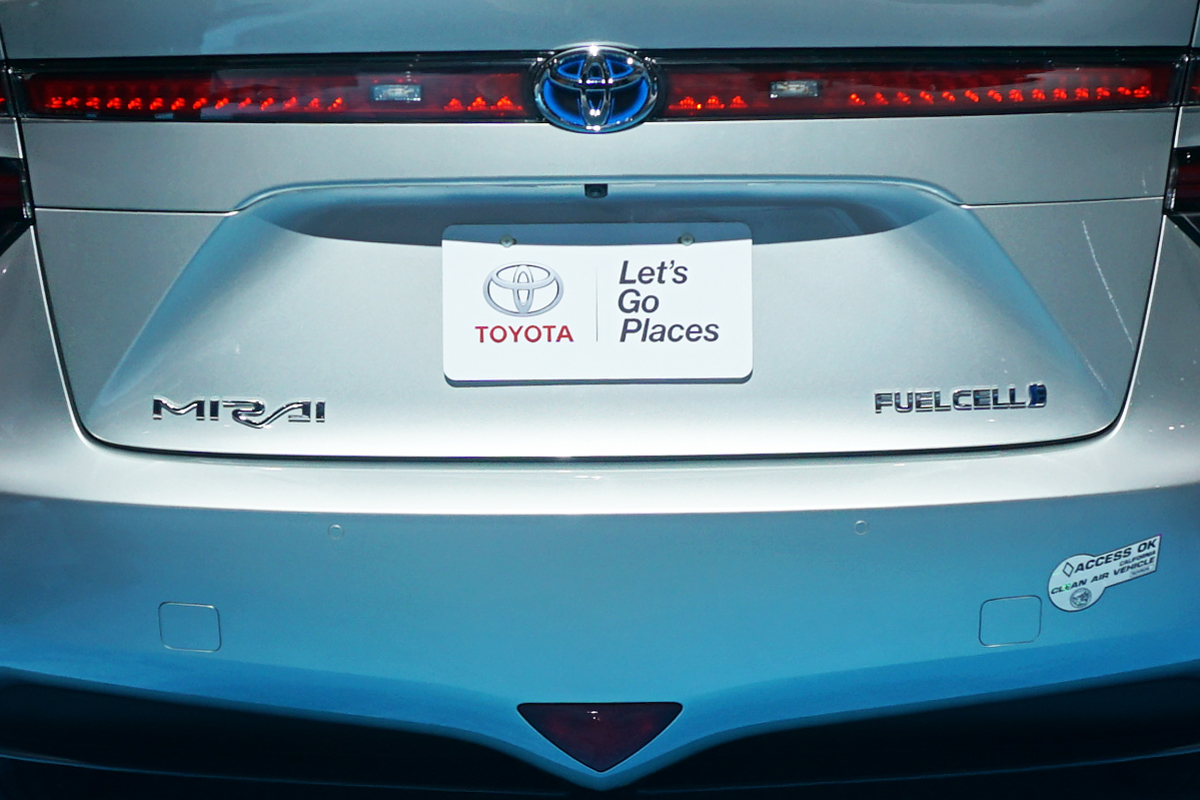 Rear Mirai's badges. 2017 Washington Auto Show, D.C., U.S.